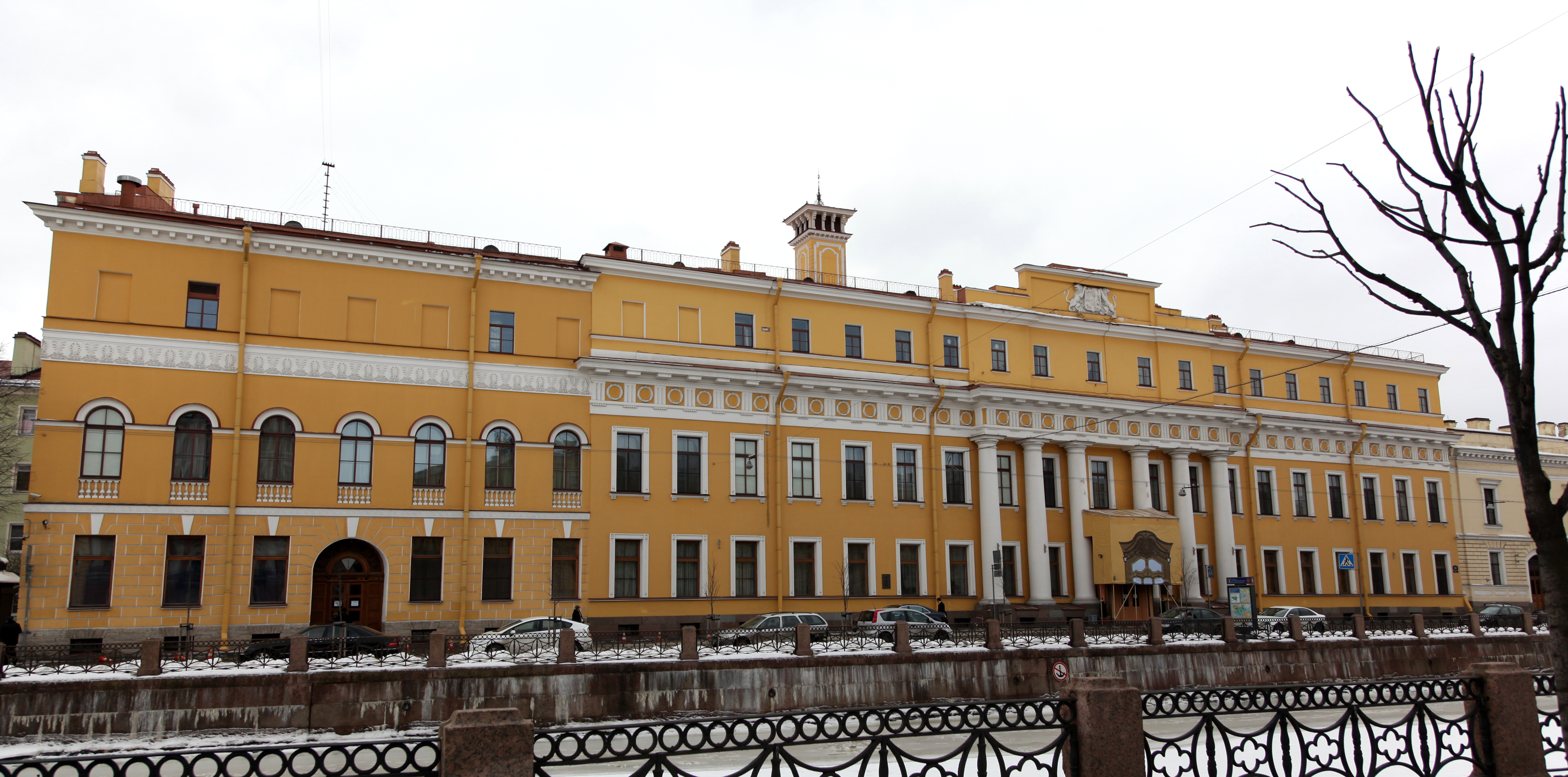 Yusupov Palace in Saint Petersburg, Russia (Дворец Юсуповых на Мойке)